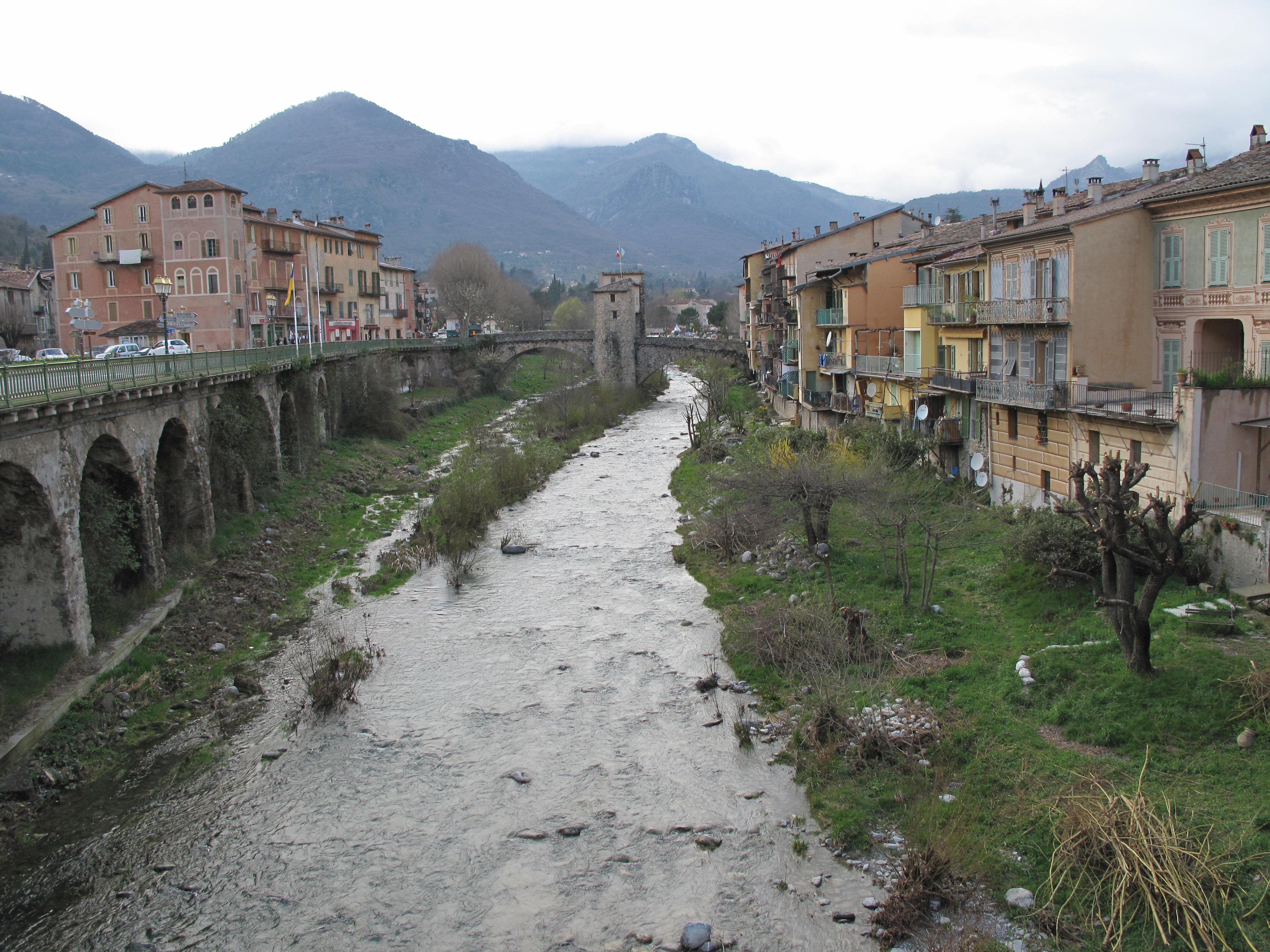 The Bevera river at springtime in Sospel, Alpes-Maritimes, France.